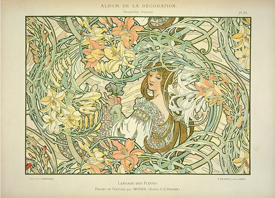 Language of Flowers by Alphonse Mucha, Plate 35 from Album de la Décoration, 1900. color lithograph. There is also another part, "Byzantine", also 1898/99, and a similar image "Woman with a daisy"/"Femme a la marguerite" of 1899/1900. All of them were given to Forrer's studio as a draft and were printed on fabric by them.